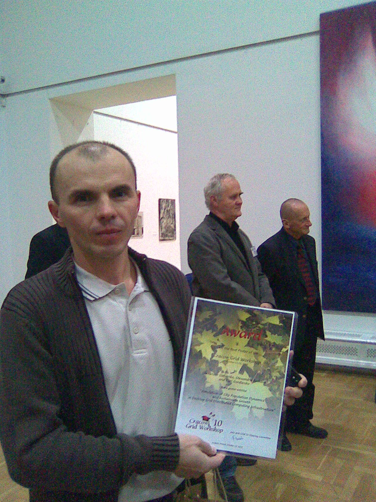 IDGF member Yuri Gordienko receives the second best poster award at Cracow Grid Workshop'10.